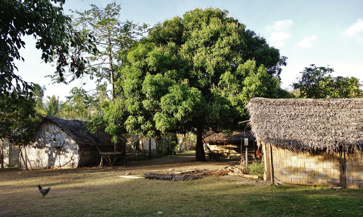 Lowanatom village